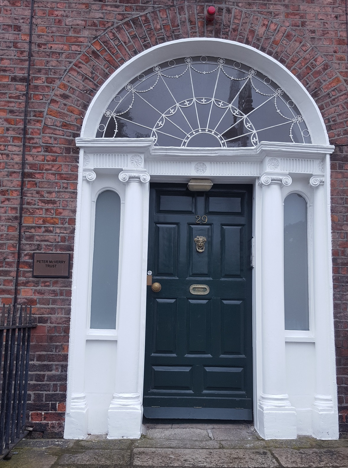 from their website "Peter McVerry Trust is a national housing and homeless charity committed to reducing homelessness and the harm caused by substance misuse and social disadvantage."